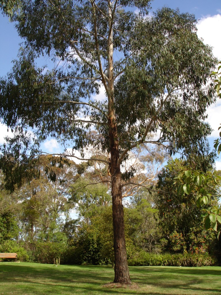 Photographed at Maranoa Gardens, Melbourne, Victoria, Australia by HelloMojo 08:53, 6 April 2007 (UTC)